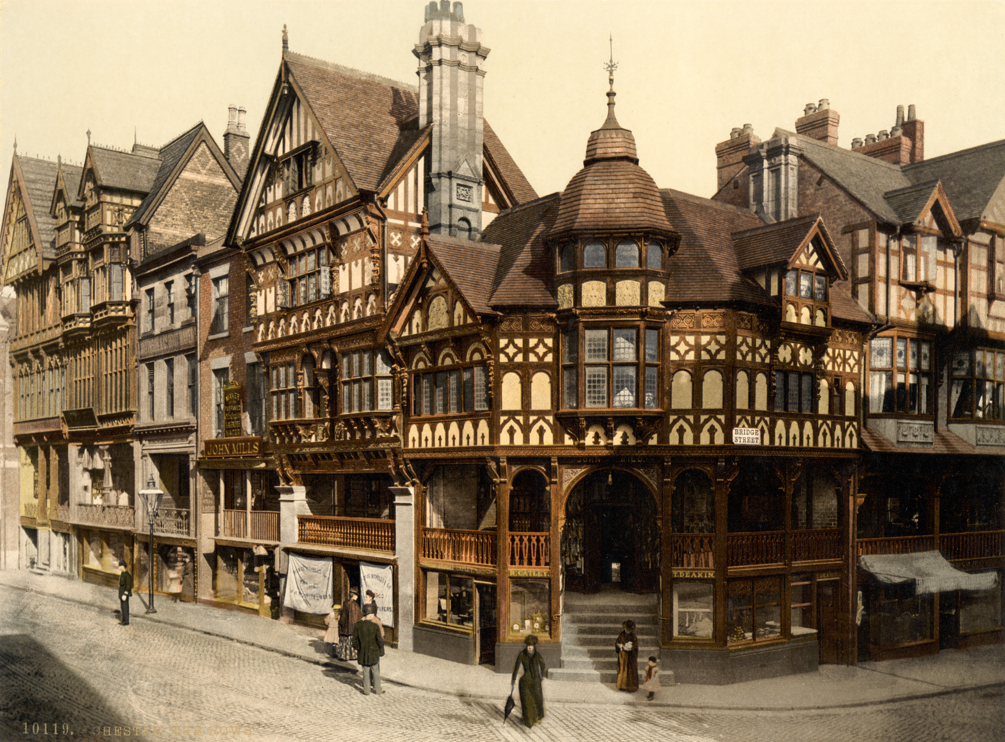 The Cross and Rows, Chester, Cheshire, England